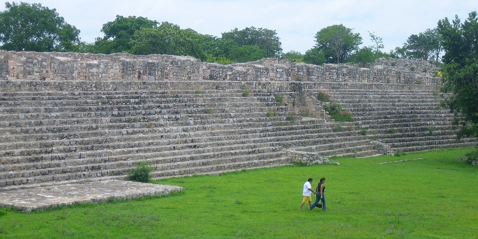 Structure 44 in ruins of Maya city Dzibilchaltún (Mexico)